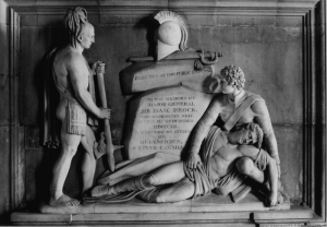 Monument to Major General Sir Isaac Brock at the St. Paul's Cathedral, London